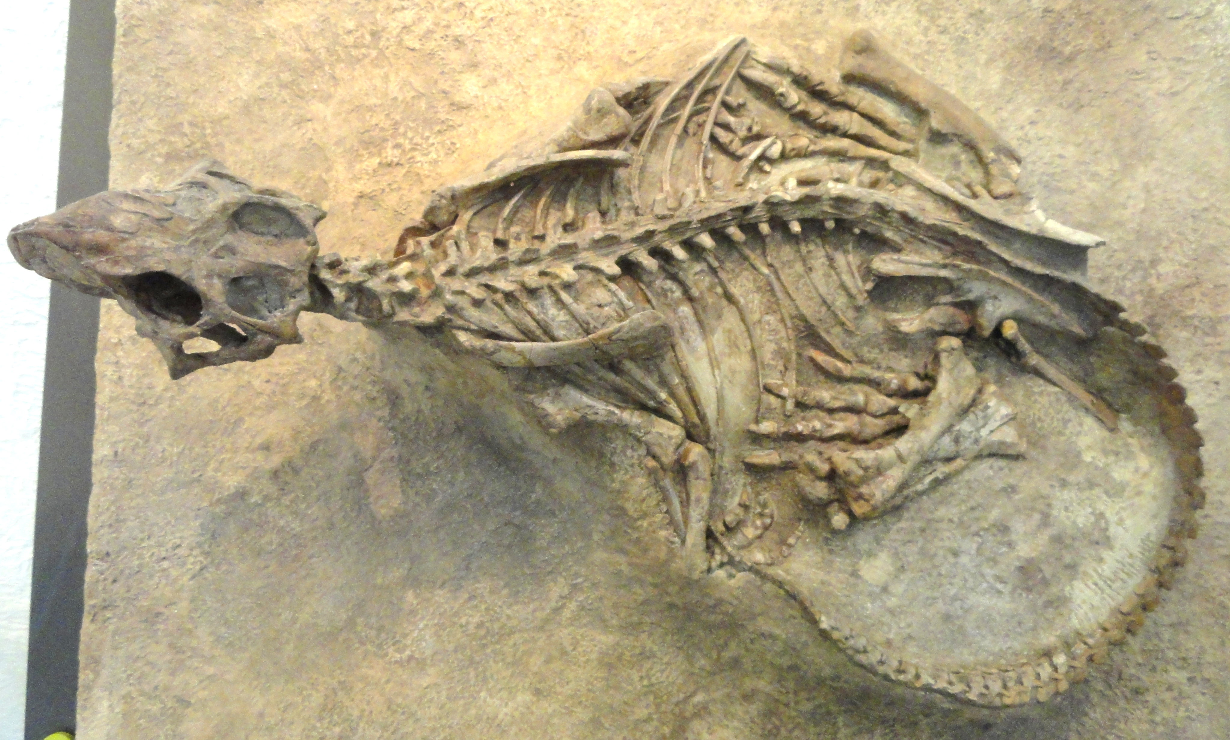 Exhibit in the fossil collection of the American Museum of Natural History, Manhattan, New York City, New York, USA.